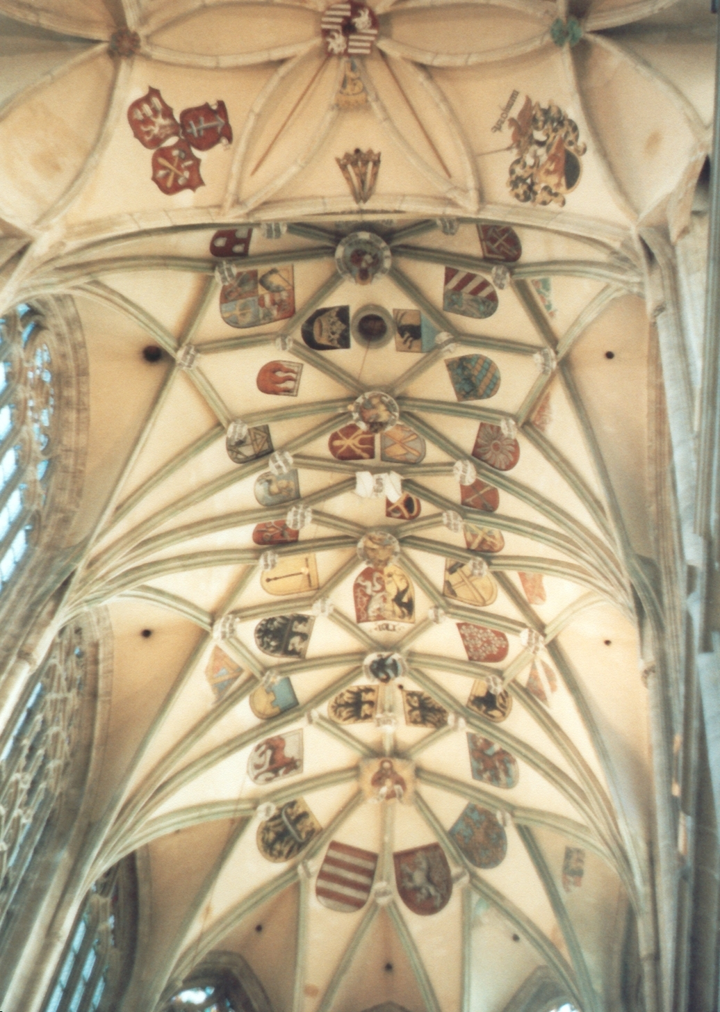 Interior of St Barbara church, Kutná Hora, Czech Republic